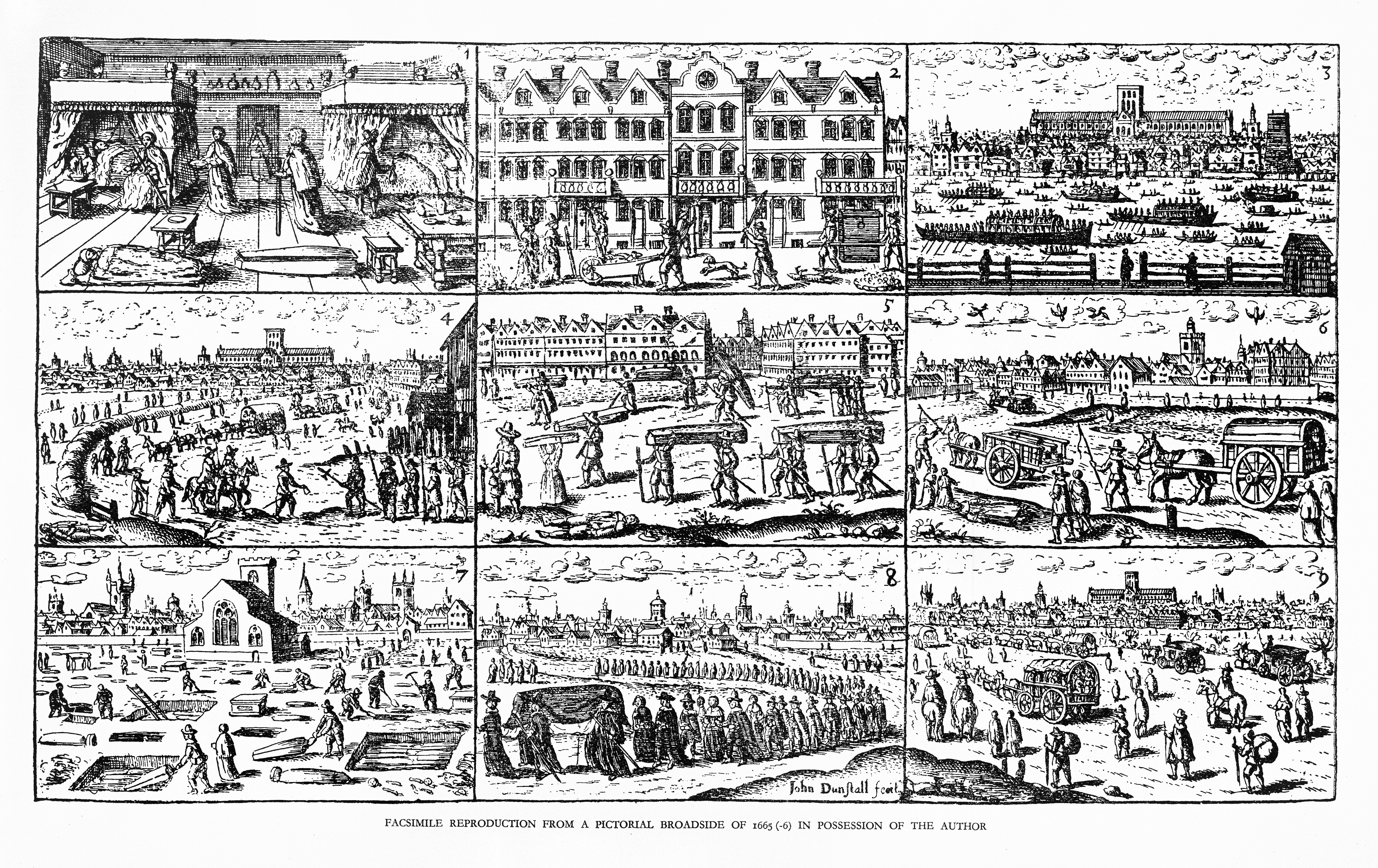 Nine images of the Great Plague of London in 1665 General Collections Keywords: bubonic plague; Walter George Bell